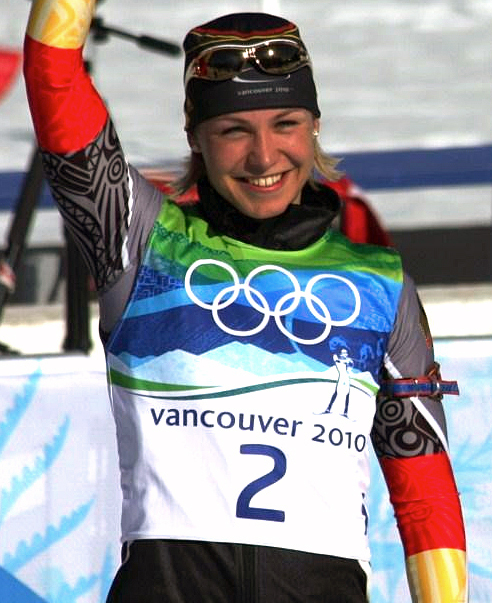 Magdalena Neuner on the podium of the Olympic Mass Start race, Vancouver, Canada Cropped from File:Neuner-Vancouver2.jpg